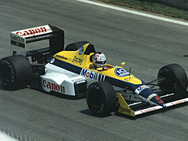 Nigel Mansell driving for WilliamsF1 at the 1988 Canadian Grand Prix.